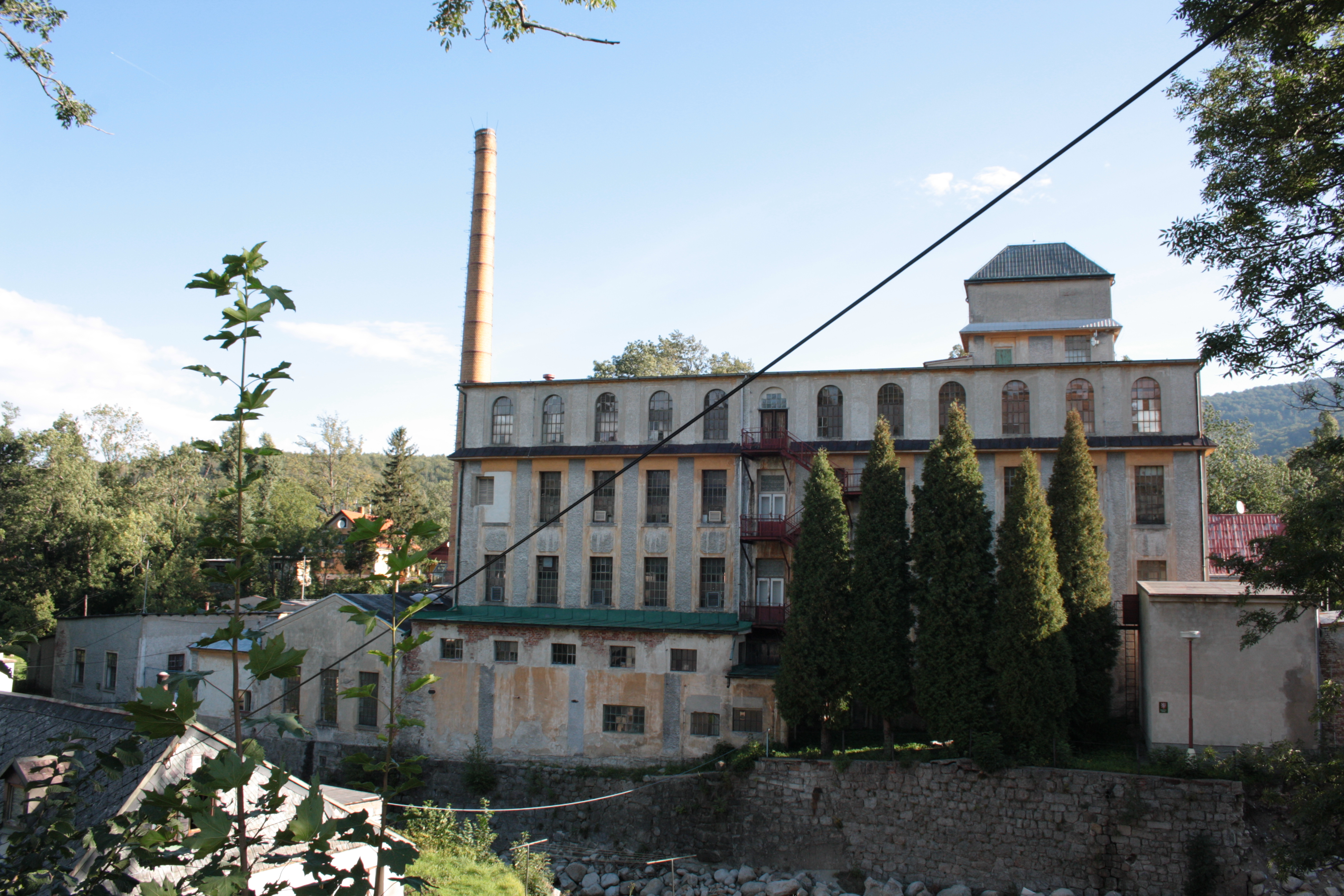 This photograph was taken with a DSLR from WMCZ's Camera grant. Přádelna firmy Karl Bienert junior v Bílém Potoce (pohled od jihu).